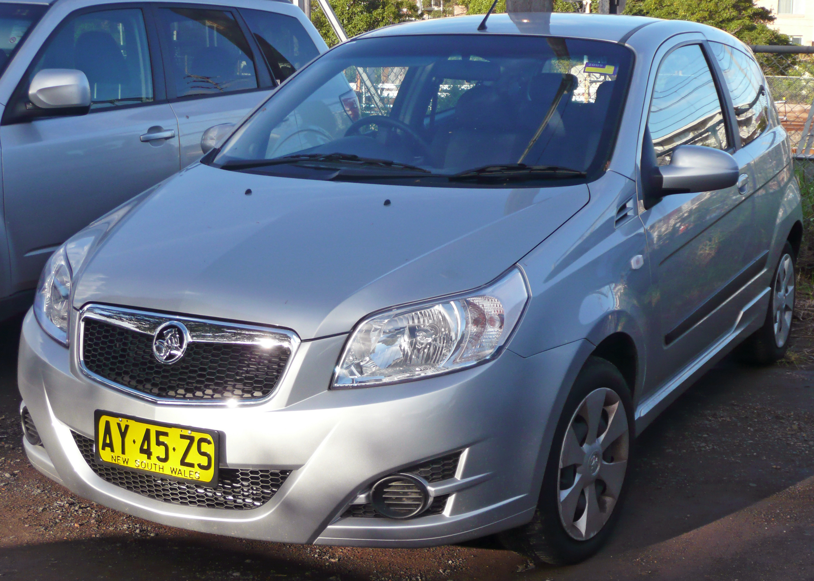 2008–2009 Holden Barina (TK MY09) 3-door hatchback. Photographed in Sutherland, New South Wales, Australia.